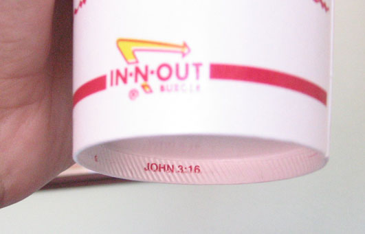 A picture of a Bible reference to John 3:16 on the bottom of an In-N-Out Burger drink cup.